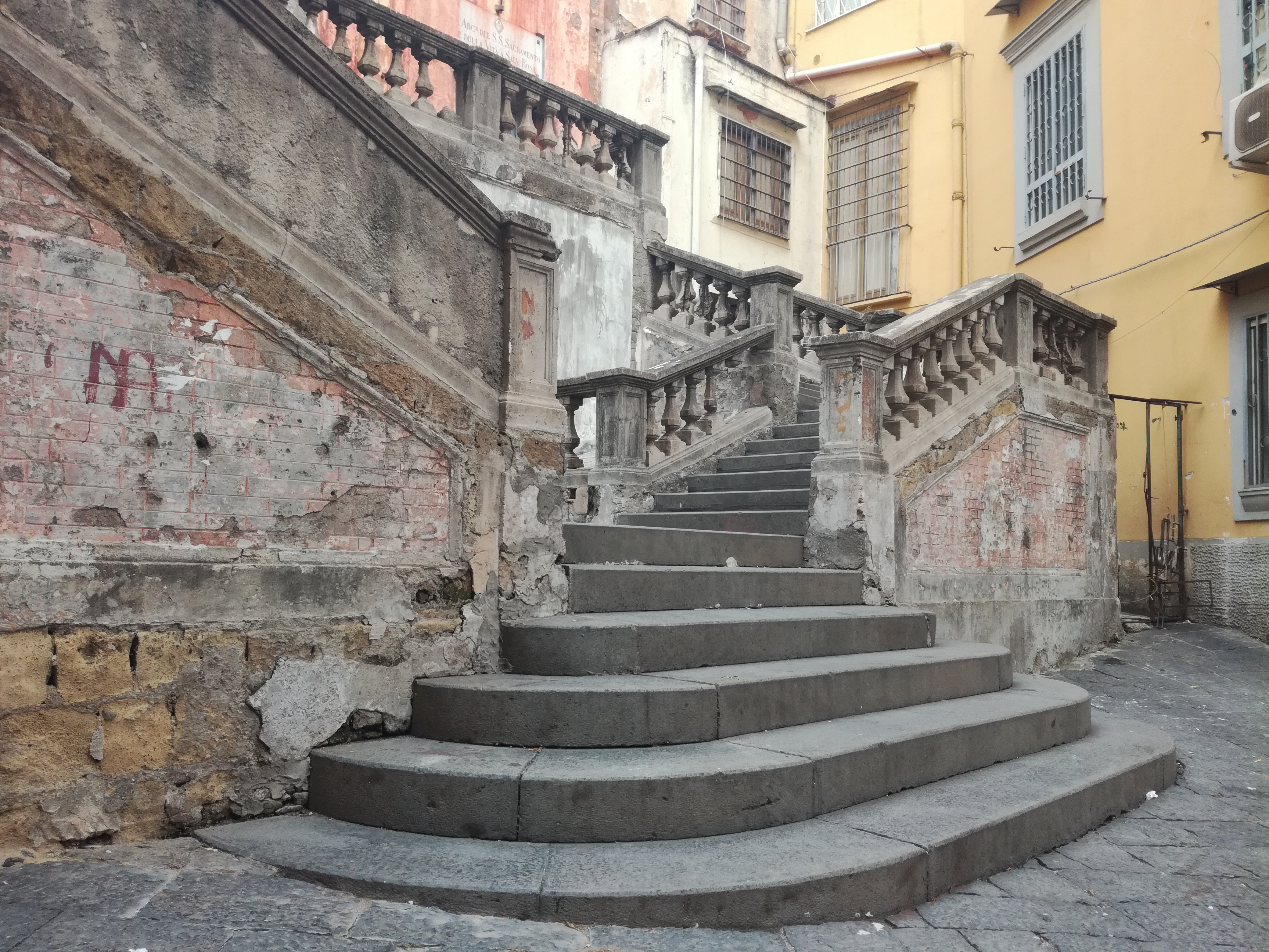 Steps of Trinità alla Cesarea (Naples)